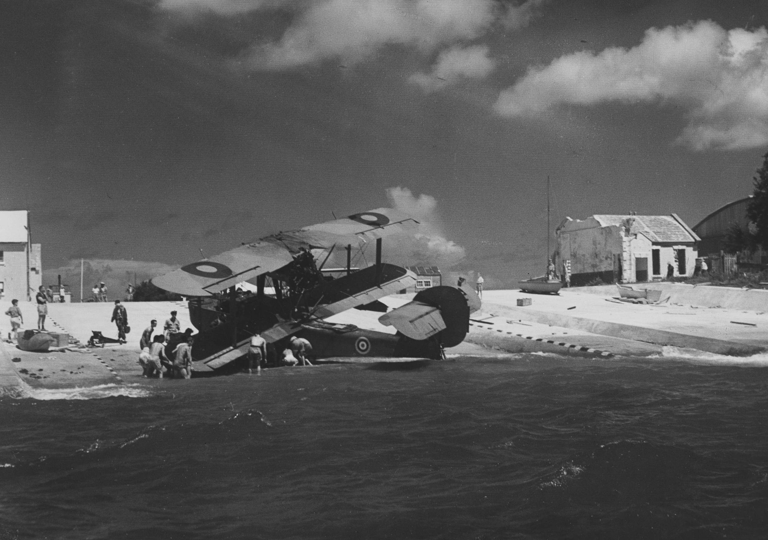 A Supermarine Walrus seaplane of the Fleet Air Arm being hauled ashore from the Great Sound at Royal Naval Air Station Bermuda at Boaz Island (connected to the Royal Naval Dockyard on neighbouring Ireland Island) during the Second World War.